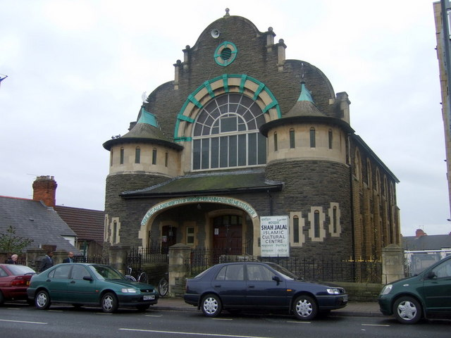 Mosque in Crwys Road, Cardiff. Built in 1899 as the Welsh Calvinistic Methodist Chapel; now the Shah Jalal Mosque.